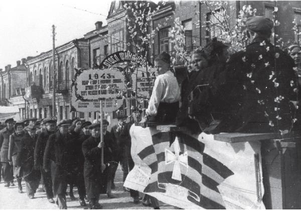 Members of the collaborationist organization Union of Russian Youth at a meeting in Babruysk (today Belarus) in 1943. (В.А. Ляхор: Военная символика белорусов, 2014, с. 70)